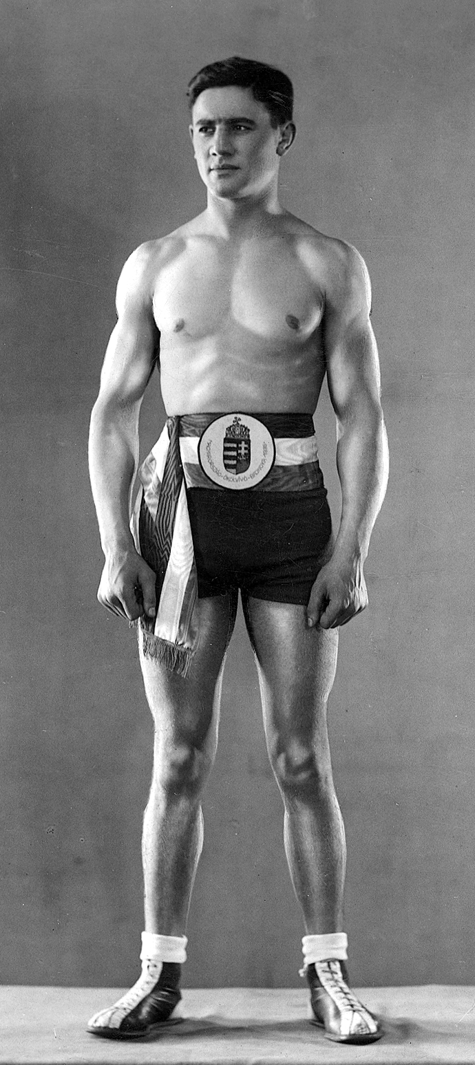 Imre Mándi, five time Hungarian champion boxer, Olympic participant (1936, Berlin)